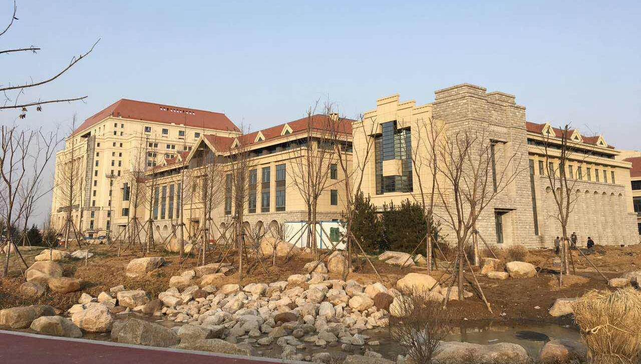 K1 Building under construction on Shandong University's Qingdao campus seen from the southwest. In the background, the central campus library can be seen.